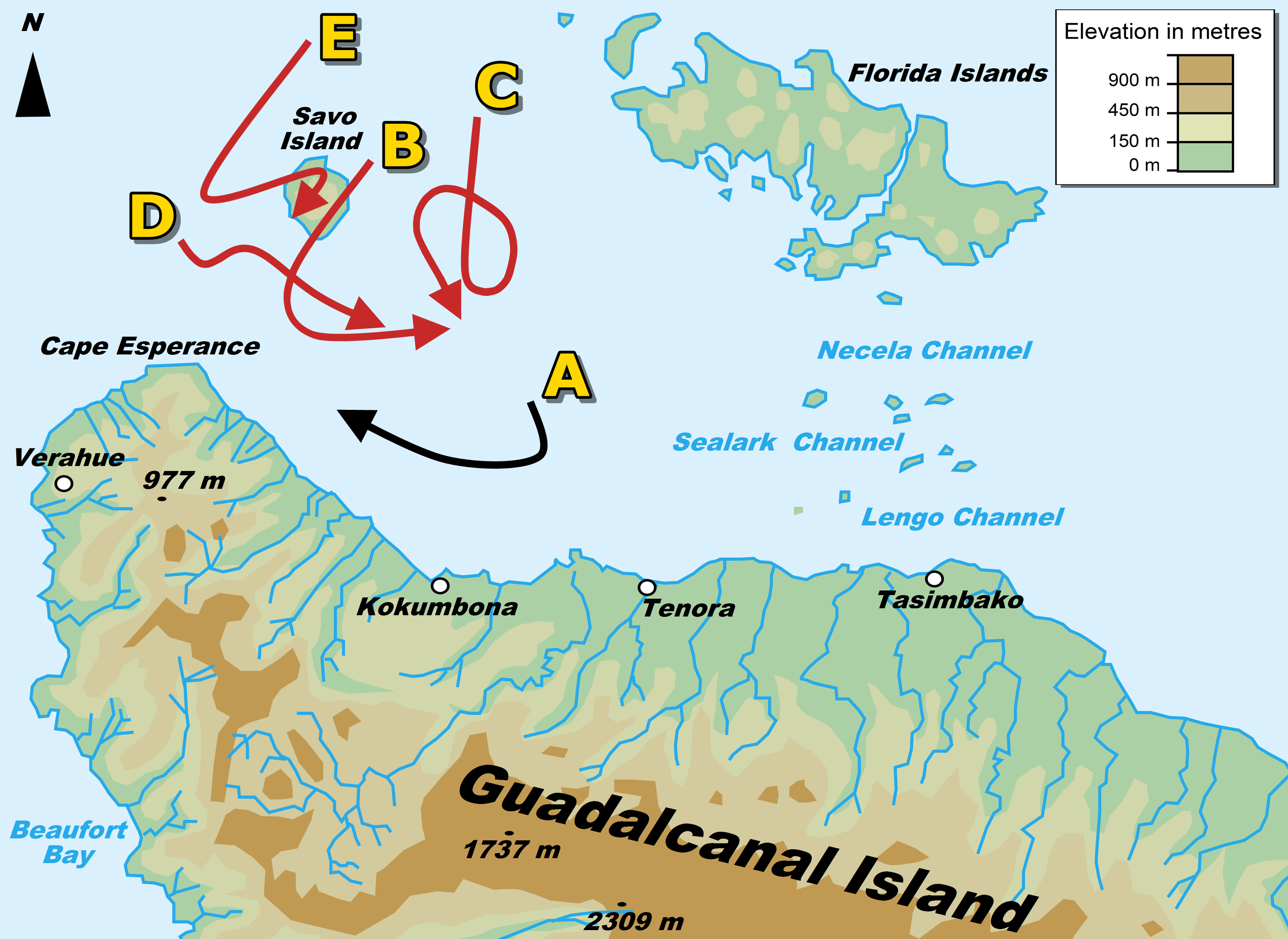 Chart of the first phase of the second night engagement of the Naval Battle of Guadalcanal, 23:17-23:30, November 14, 1942. Key: A- U.S. warship force: Washington, South Dakota, and four destroyers B- Japanese destroyer Ayanami C- Japanese light cruiser Sendai and destroyers Uranami and Shikinami D- Japanese light cruiser Nagara and destroyers Shirayuki, Hastuyuki, Samidare, and Inazuma E- Japanese bombardment force: battleship Kirishima, heavy cruisers Atago and Takao, and destroyers Asagumo and Teruzuki